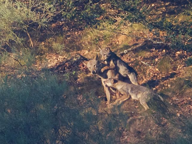 Iberian Wolf pups stimulating the alpha female to regurgitate some meat 2